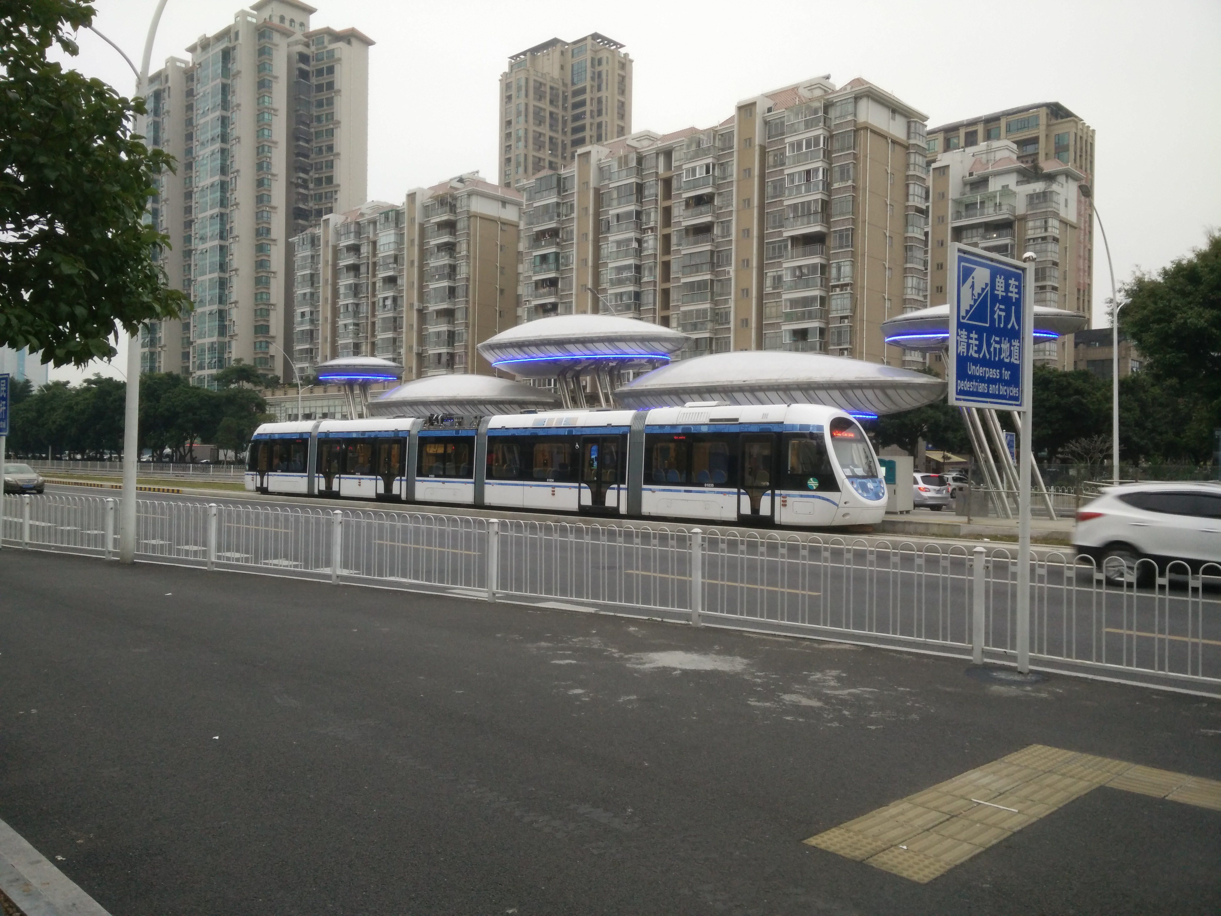 The tram in this photo was in running test.